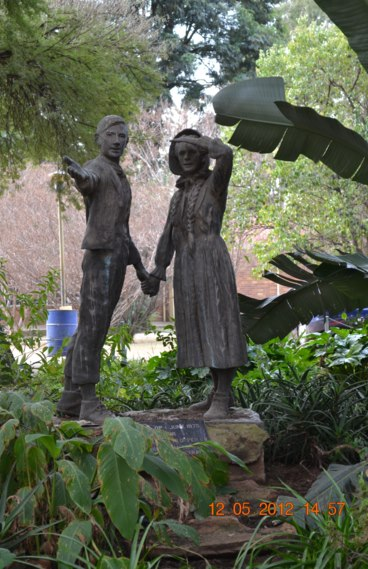 photo of statue ; Hoërskool Voortrekker